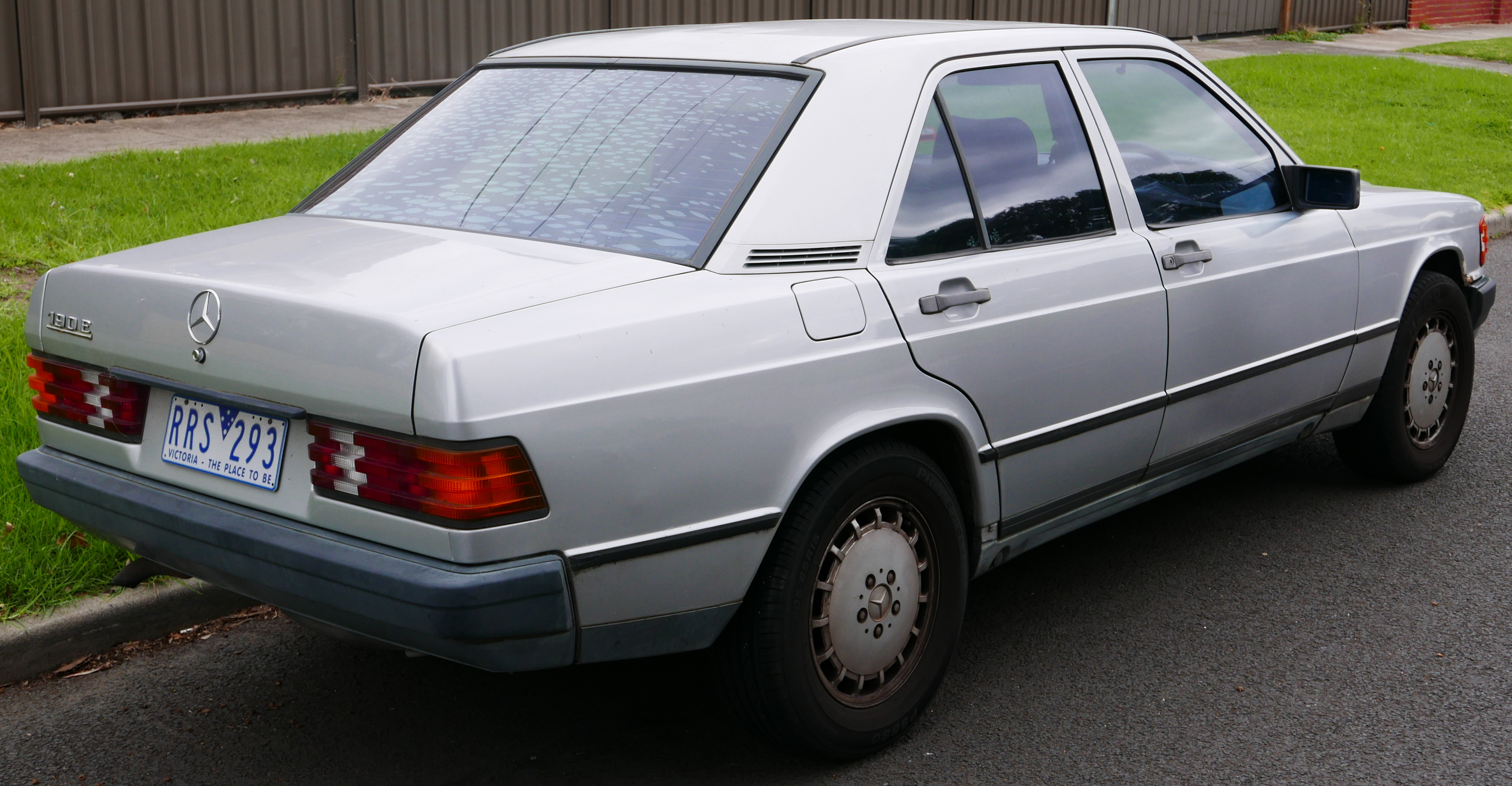 1985 Mercedes-Benz 190 E (W 201) 2.0 sedan. Photographed in Thornbury, Victoria, Australia. Vehicle registration enquiry results Jurisdiction Victoria Registration RRS293 Chassis code WDB2010242F155172 Engine code 10296222028048 Compliance date 1985-11 Year of manufacture 1986 (not a typo)